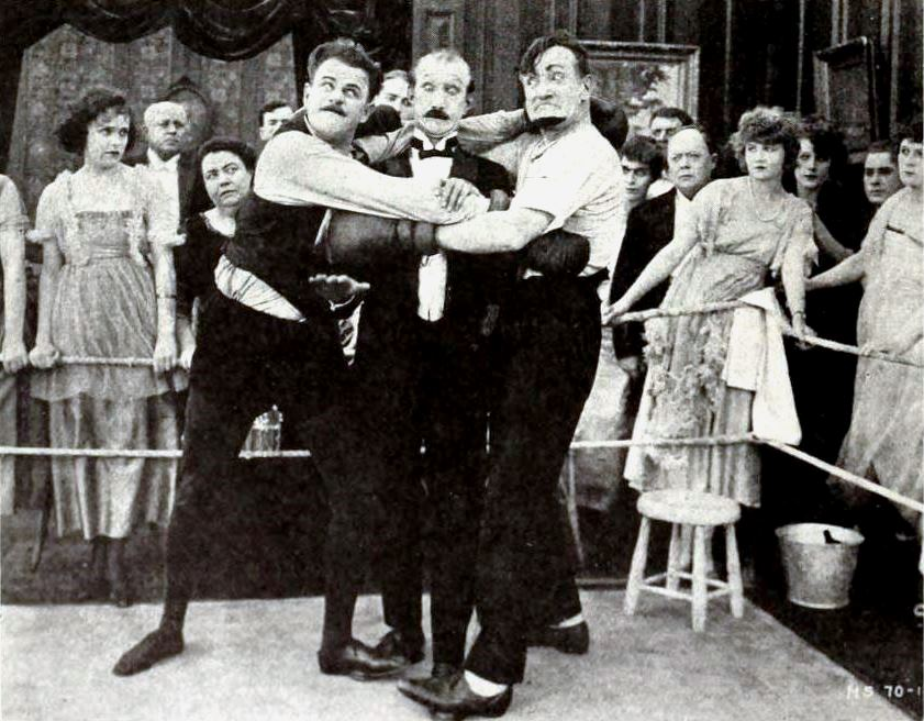 Still from the American comedy short film Don't Weaken! (1920) with Fanny Kelly (1875 – 1925), Charles Murray, Ford Sterling, James Finlayson, and Harriet Hammond, on page 46 of the September 11, 1920 Exhibitors Herald.